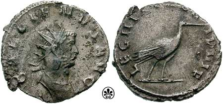 Gallienus. 253–268 AD. AR Antoninianus (4.23 g). Struck 260–261 AD. Mediolanum (Milan) mint. GALLIENVS AVG, radiate and cuirassed bust right LEG III ITAL VI P VI F, (= Legio III Italica sextum pia sextum fidelis) stork walking right. RIC V pt. 2, 339; Göbl, MIR 36, 999r; RSC (Cohen) 487.